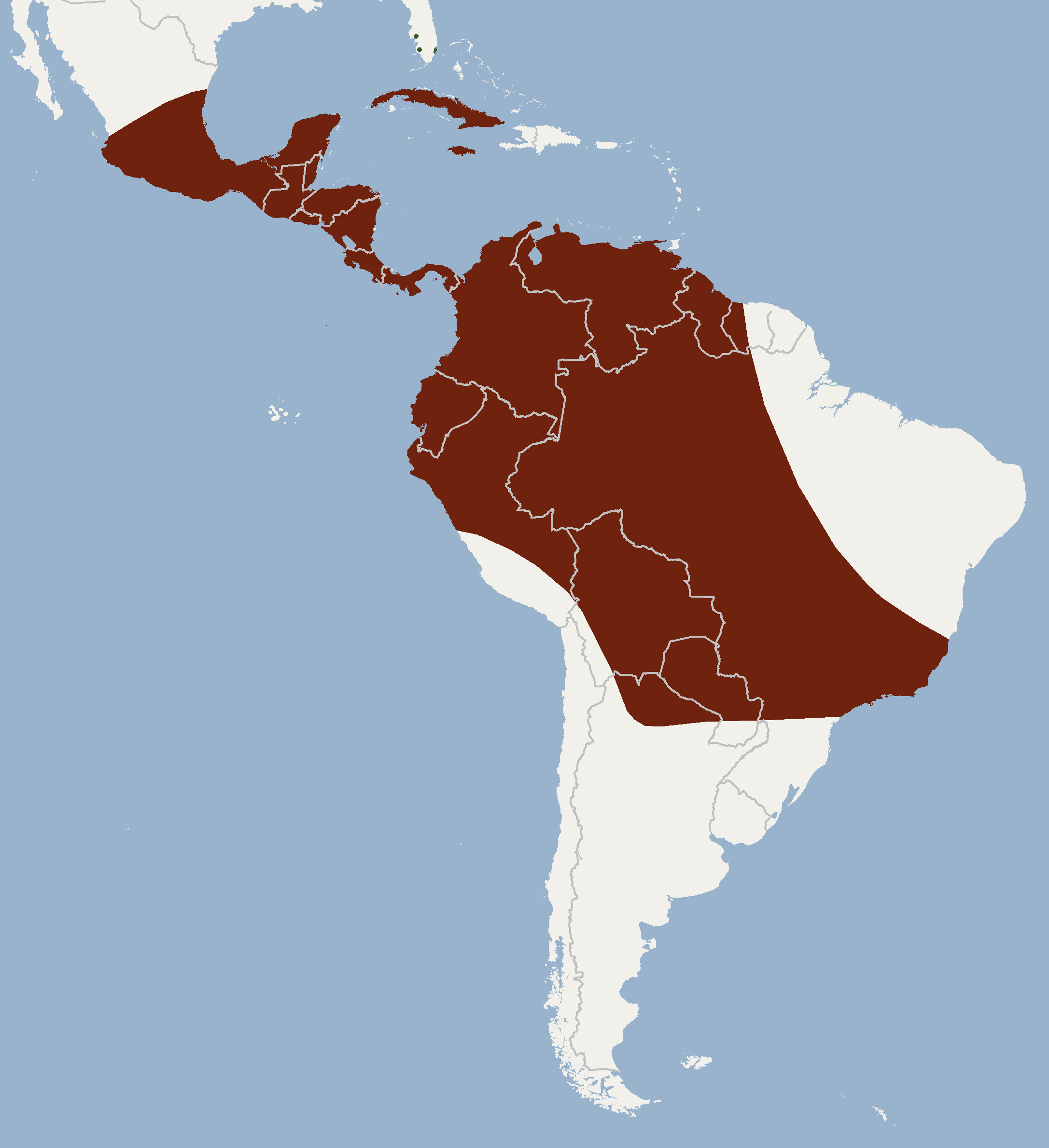 According to Best & Al., 1997